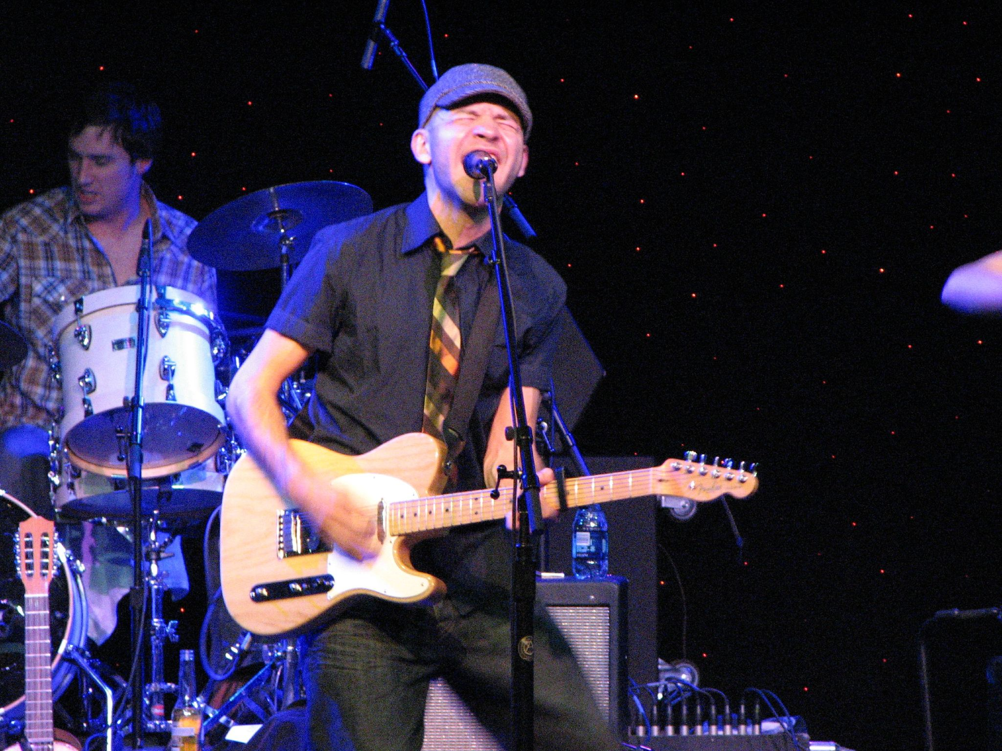 Tom Landa of the The Paperboys performing at the Triple Door in Seattle, Washington in November 2006.